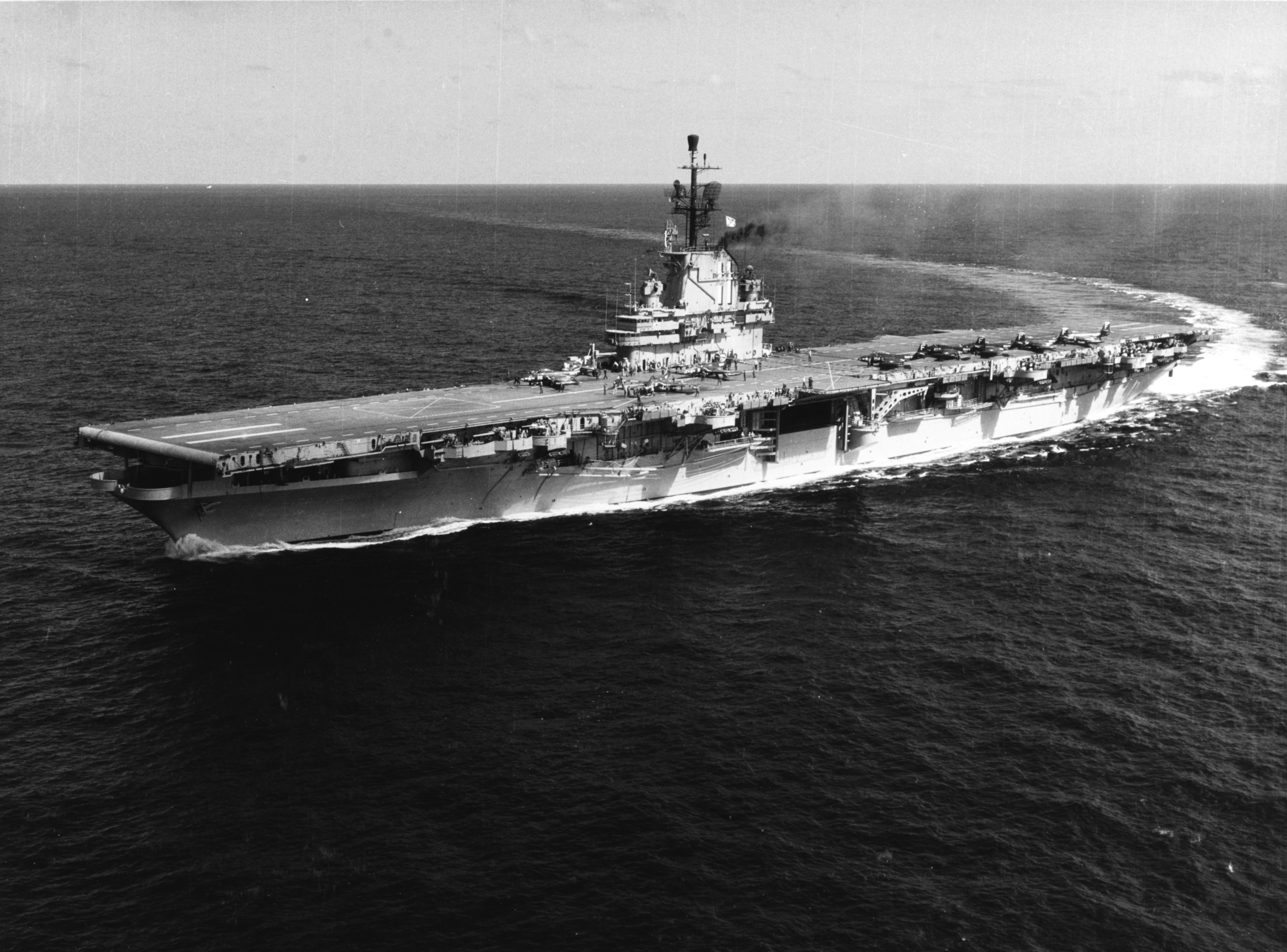 The U.S. Navy aircraft carrier USS Intrepid (CVA-11) operating off Guantanamo Bay, Cuba, 9 February 1955, shortly after her SCB-27C modernization. F2H "Banshee" jet fighters are on her flight deck.